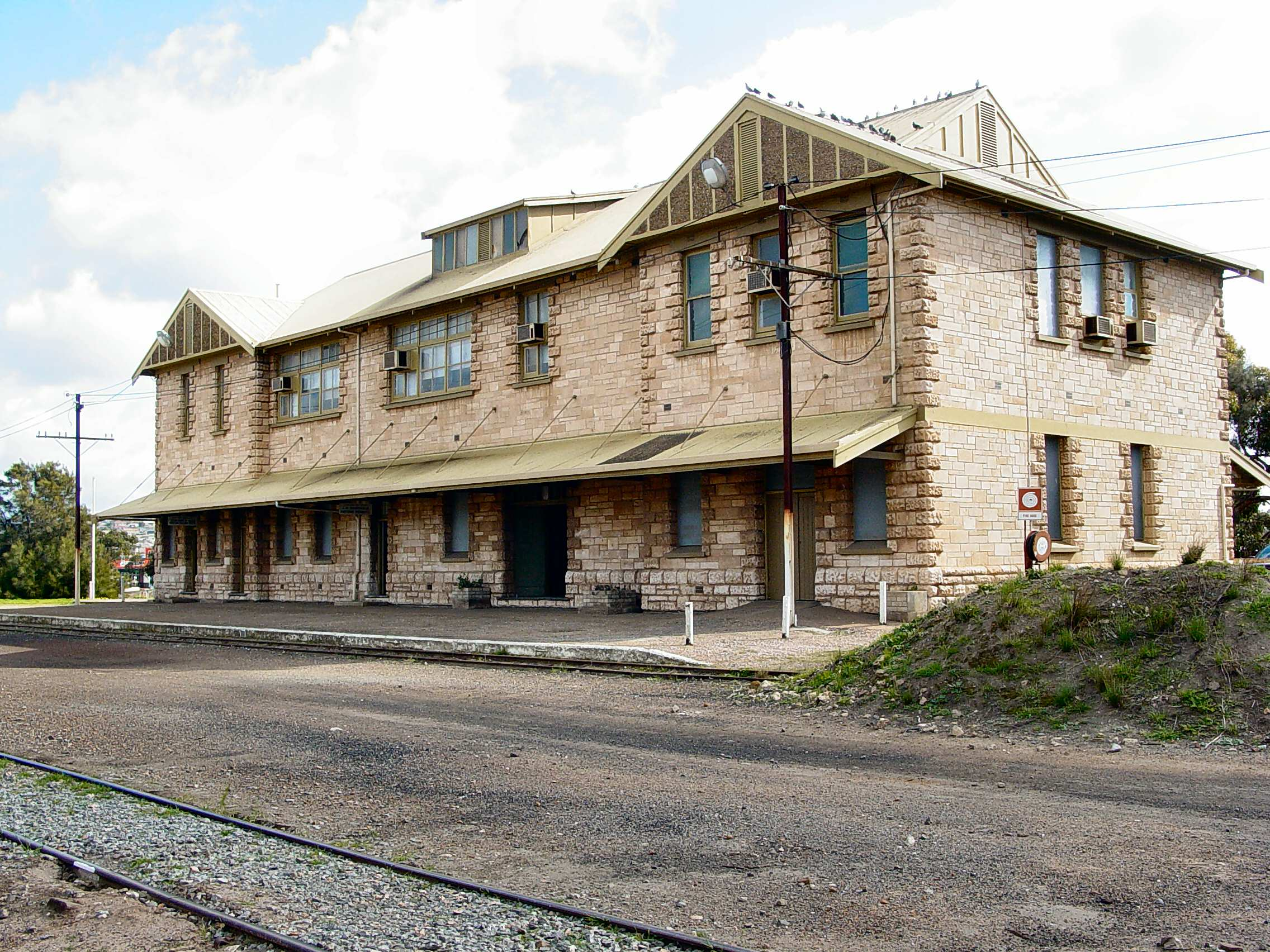 Photo taken and supplied by Brian Voon Yee Yap. Port Lincoln, South Australia